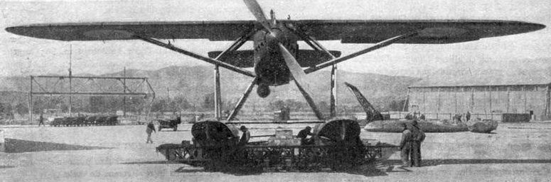 Latécoère 29-0 photo from L'Aerophile Salon 1932